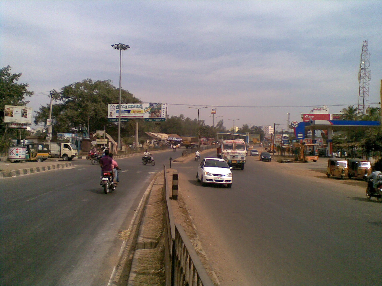 Lalacheruvu Junction Image taken using Ramesh Ramaiah's Nokia mobile.